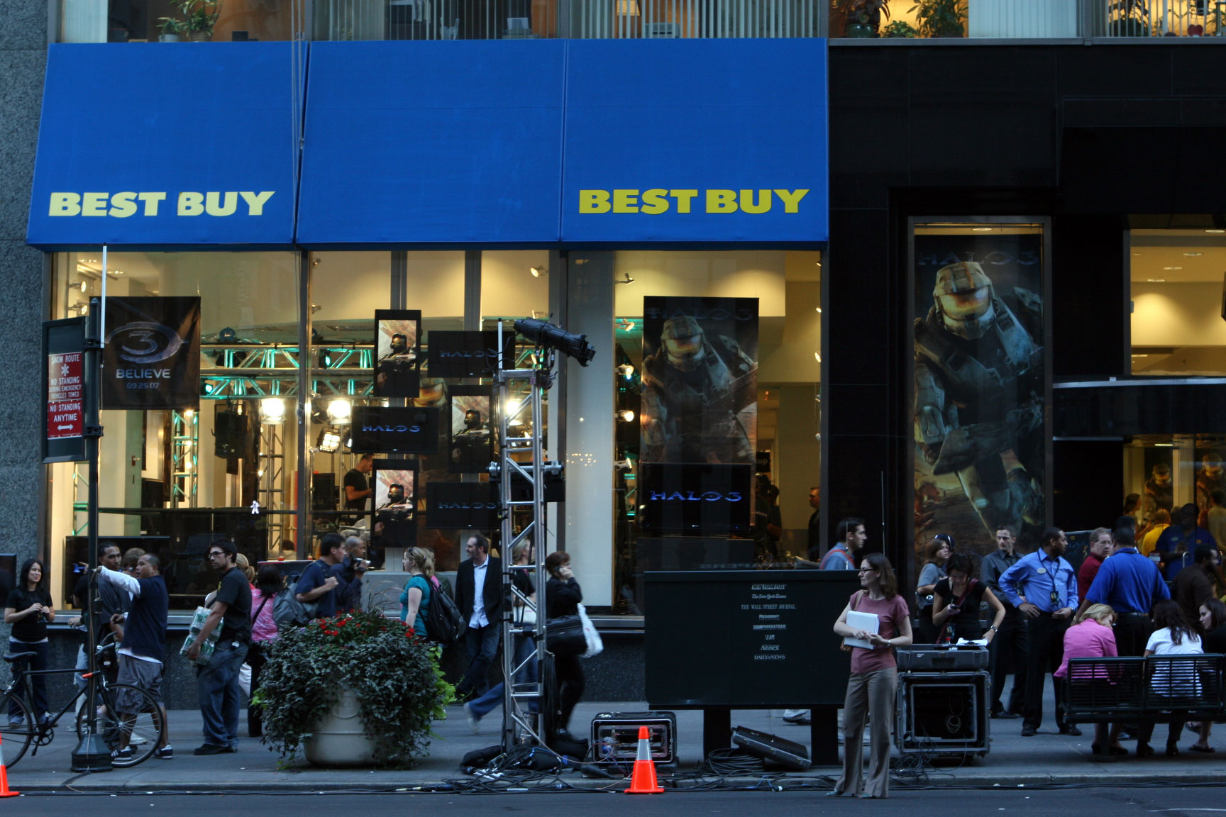 Halo 3 will be launched in Best Buy Store in NYC.